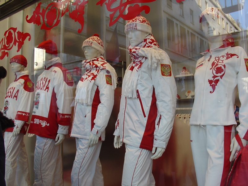 The team clothing of Russia at the Olympic Winter Games in Torino 2006